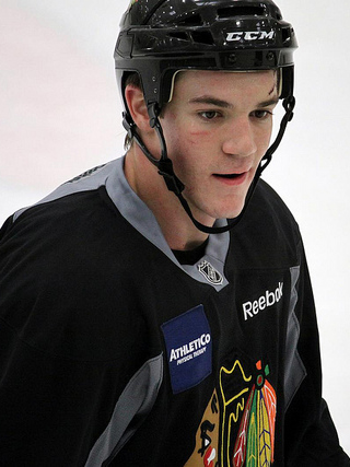 Andrew Shaw pic by HockeyBroad / Cheryl Adams